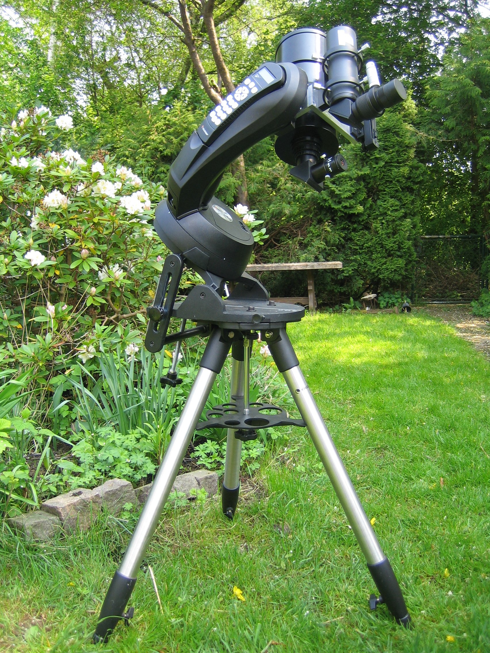 Celestron Mount "Nexstar 2" whith polar adaptor (wedge) and Russian Telescope MTO 1000/10